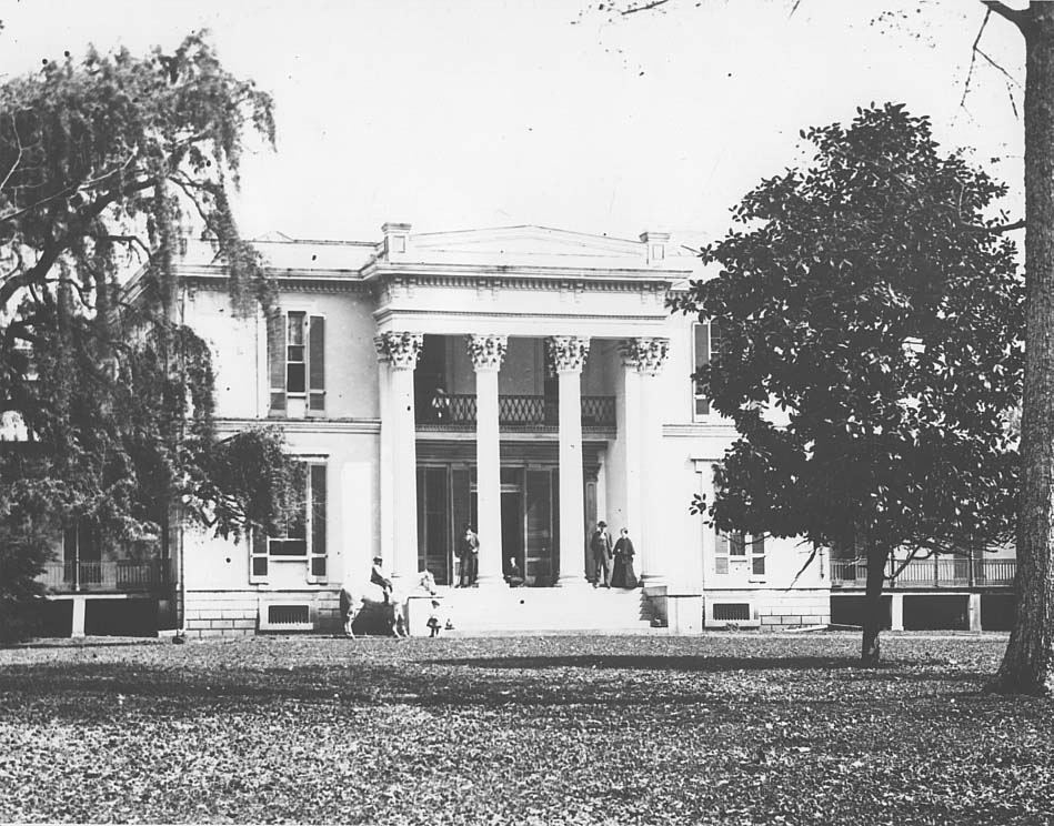 View of Ashwood Hall in Ashwood, Tennessee